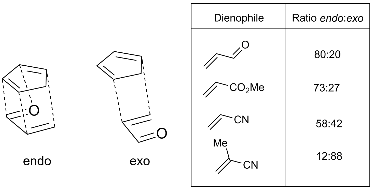 DA reaction in total synthesis